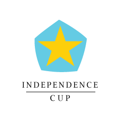 Independence-cup-logo